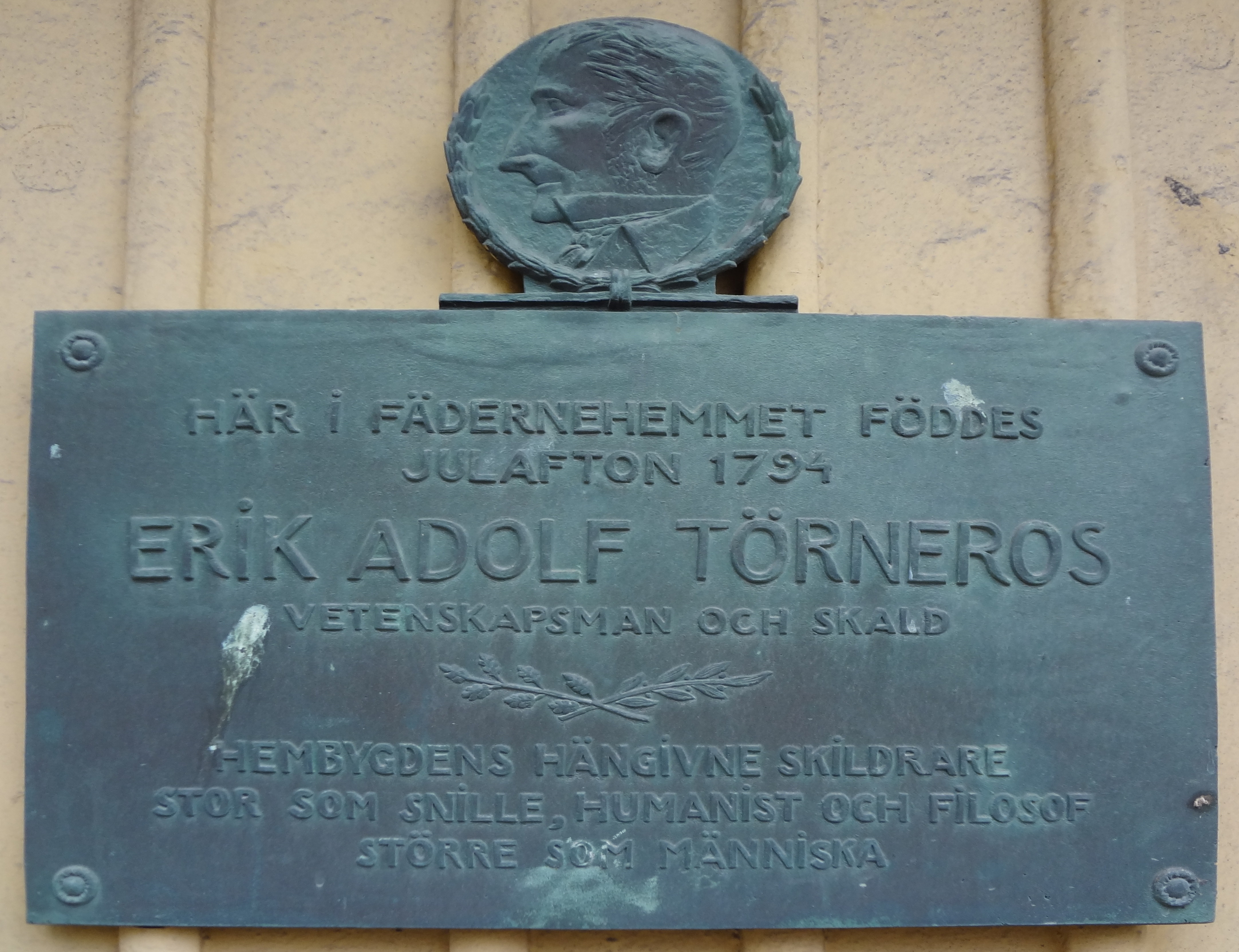 Sign about Erik Adolf Törneros at his birthplace in Kyrkogatan 16 in Eskilstuna, Sweden. Photo taken November 2012.